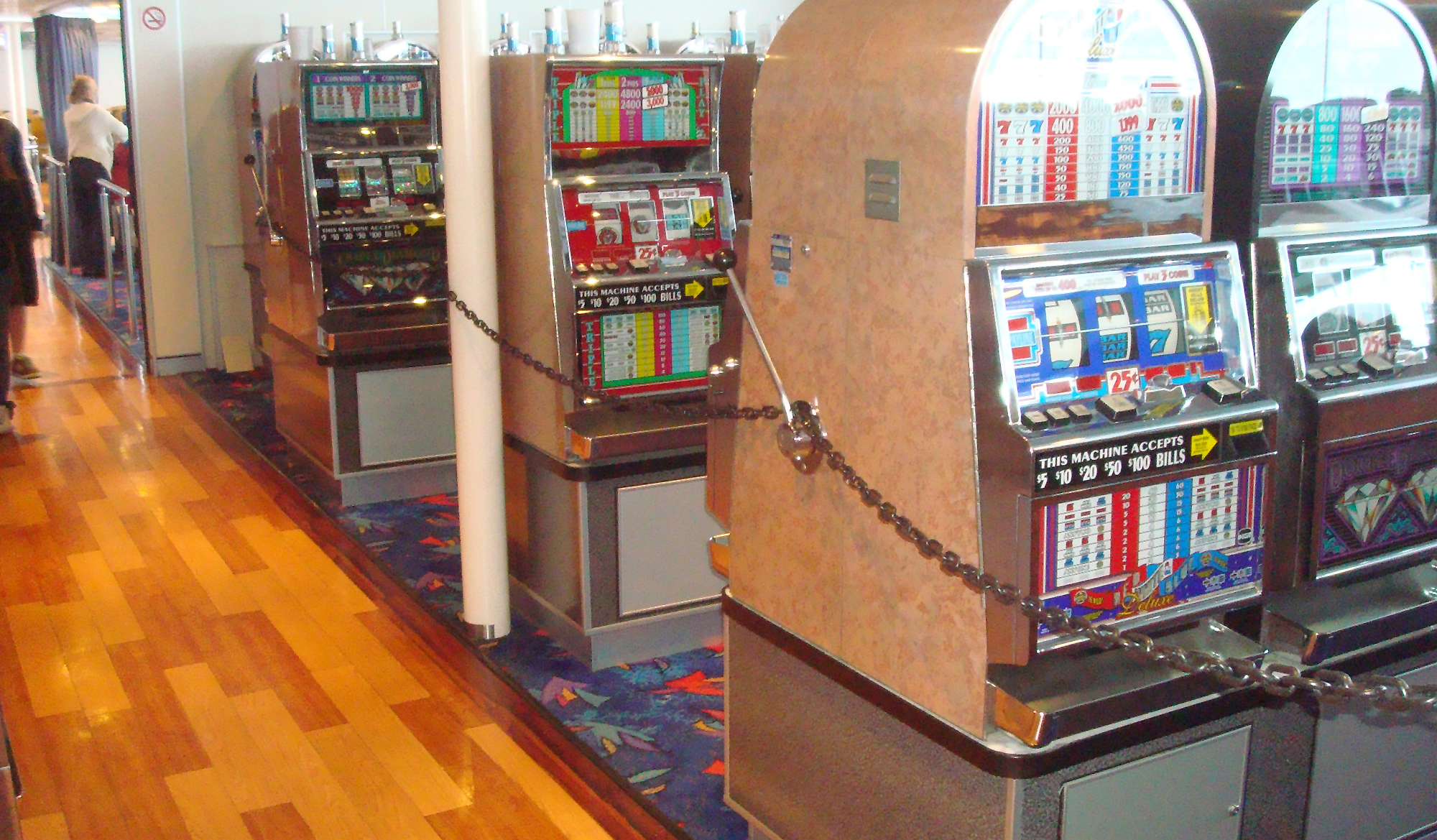 Casino on CAT ferry (operating while ship in international waters), heading to Yarmouth, NS from Bar Harbor, ME